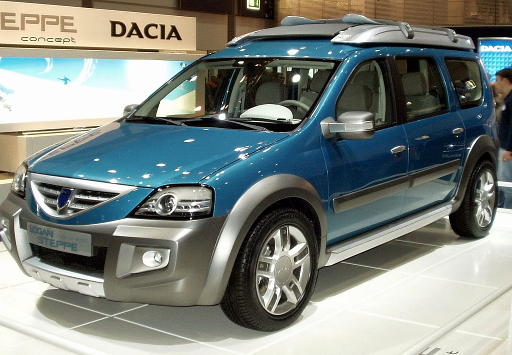 Dacia Logan Steppe